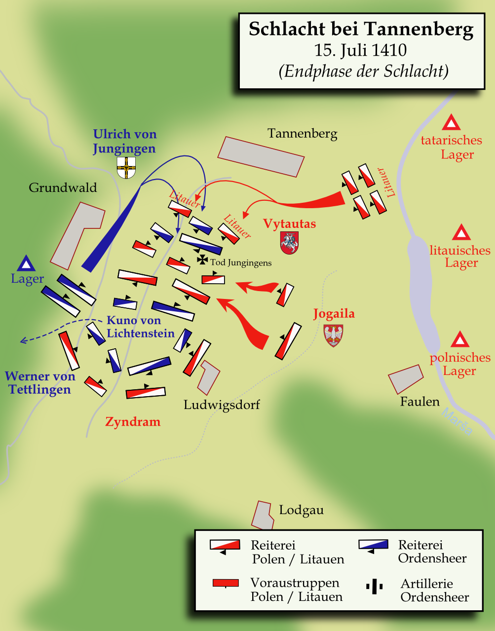 Map (in German language) showing the last phase of the Battle of Grundwald (or Tannenberg) on July, 15th 1410.